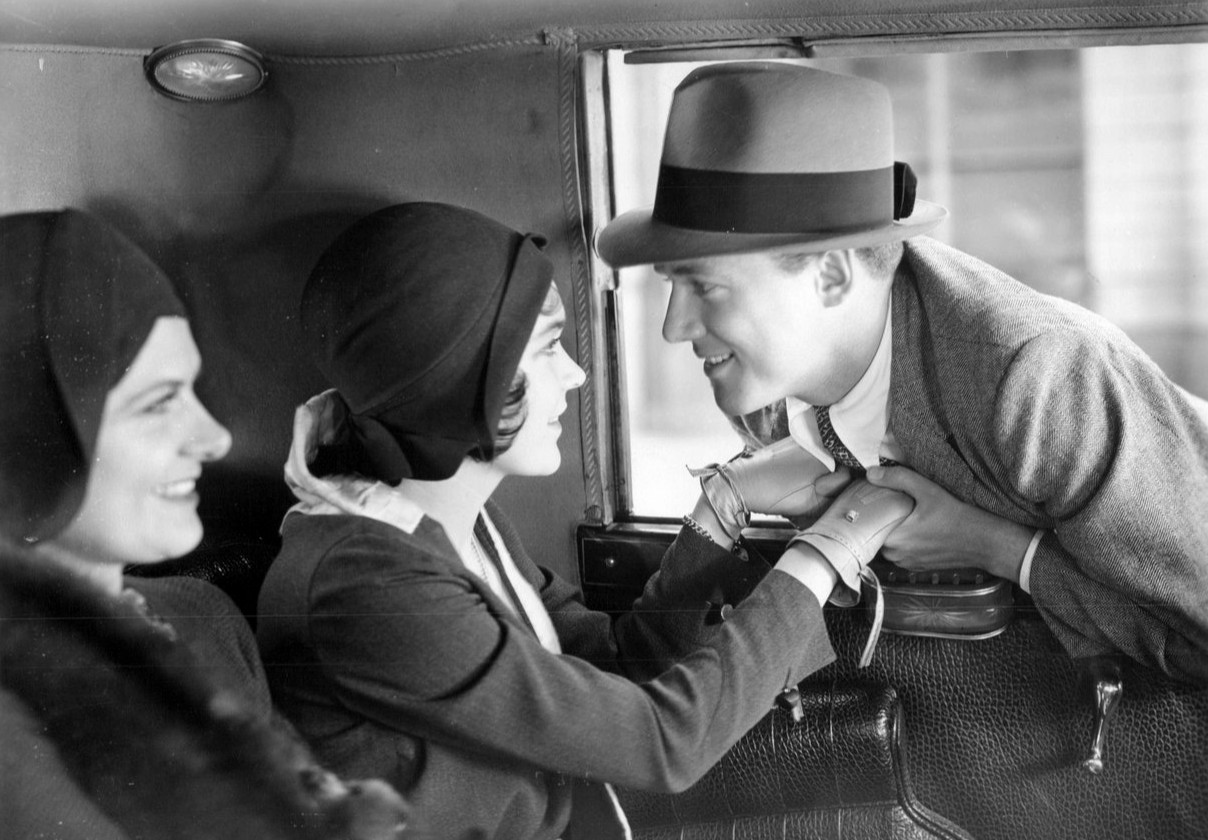 Still of Mary Forbes, Maureen O'Sullivan, and Frank Albertson from the American film So This Is London (1930).